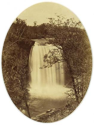 Falls of Minnehaha, Minnesota, ca. 1855, Attributed to Alex Hesler, Salted paper print, Smithsonian American Art Museum, Museum purchase from the Charles Isaacs Collection made possible in part by the Luisita L. and Franz H. Denghausen Endowment, 1994.91.73.